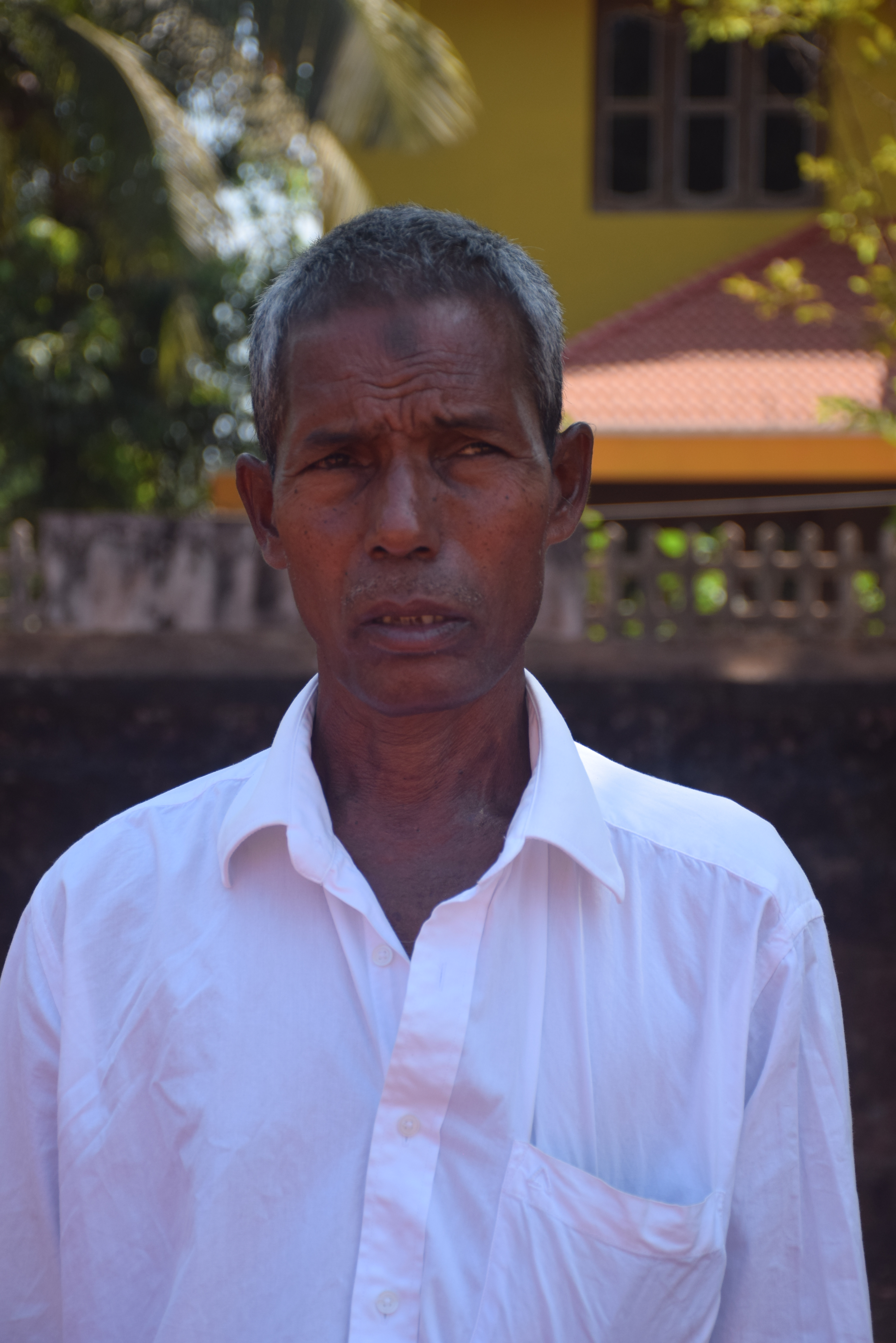 Pdmashree award winner Hajabba